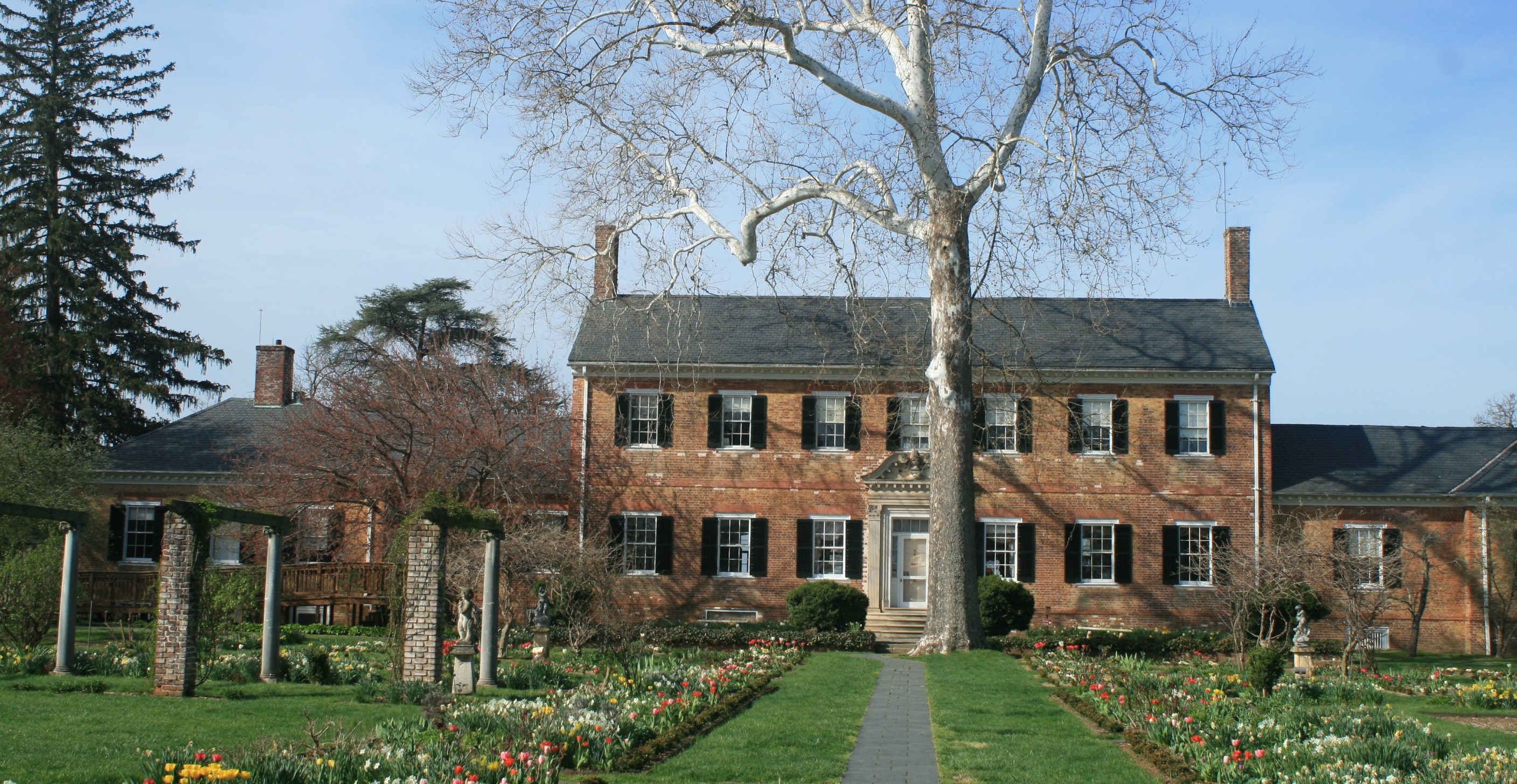 Chatham Manor at Fredericksburg, VA